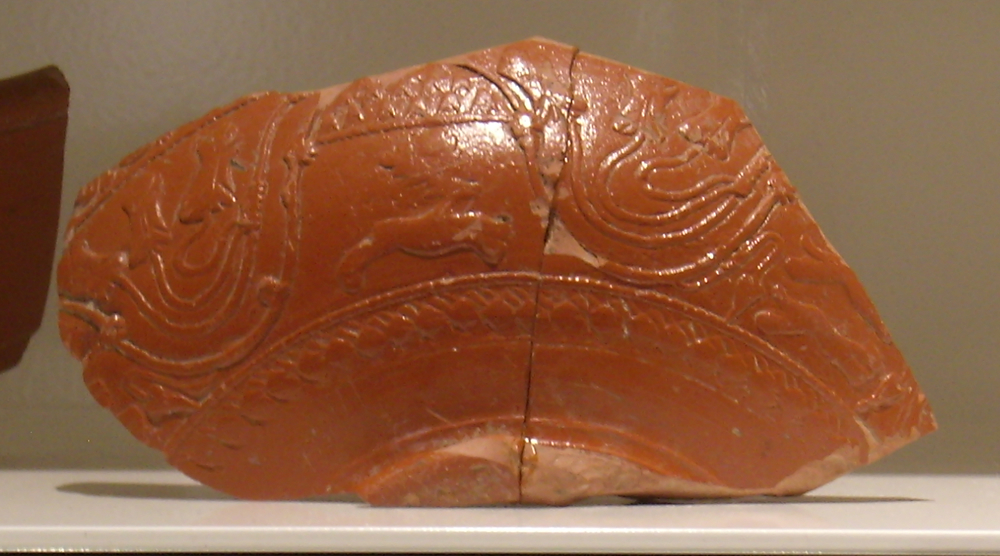 Samian ware, found at 'Cattle market' in Chichester